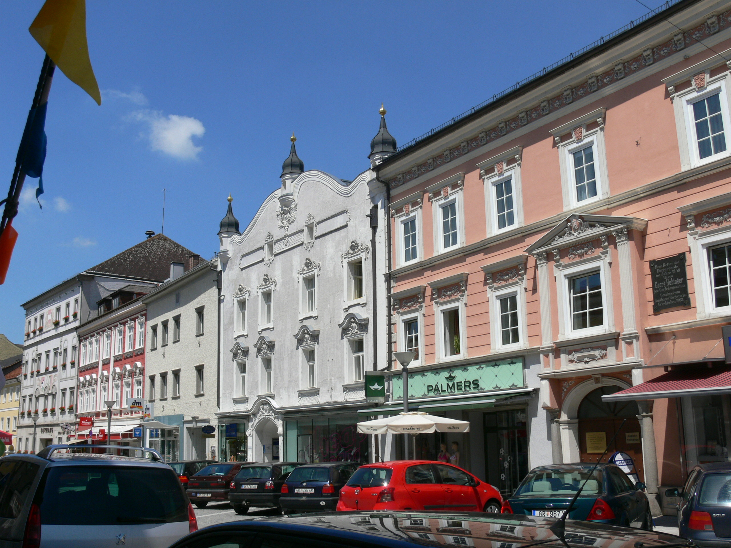 Grieskirchen. Old market houses